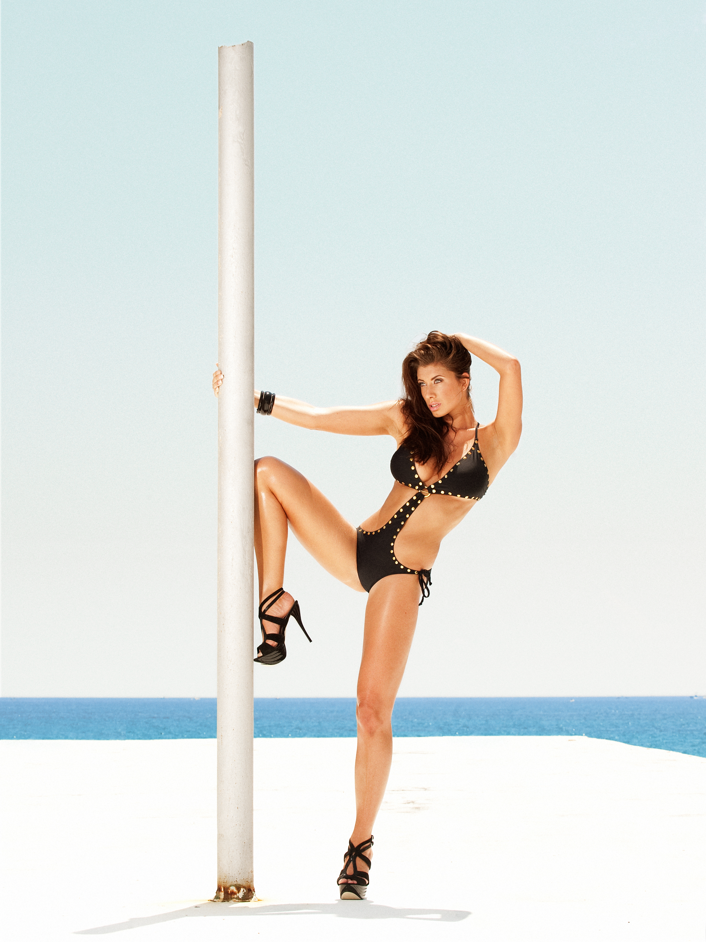 Maria Eriksson in Miami, Florida.